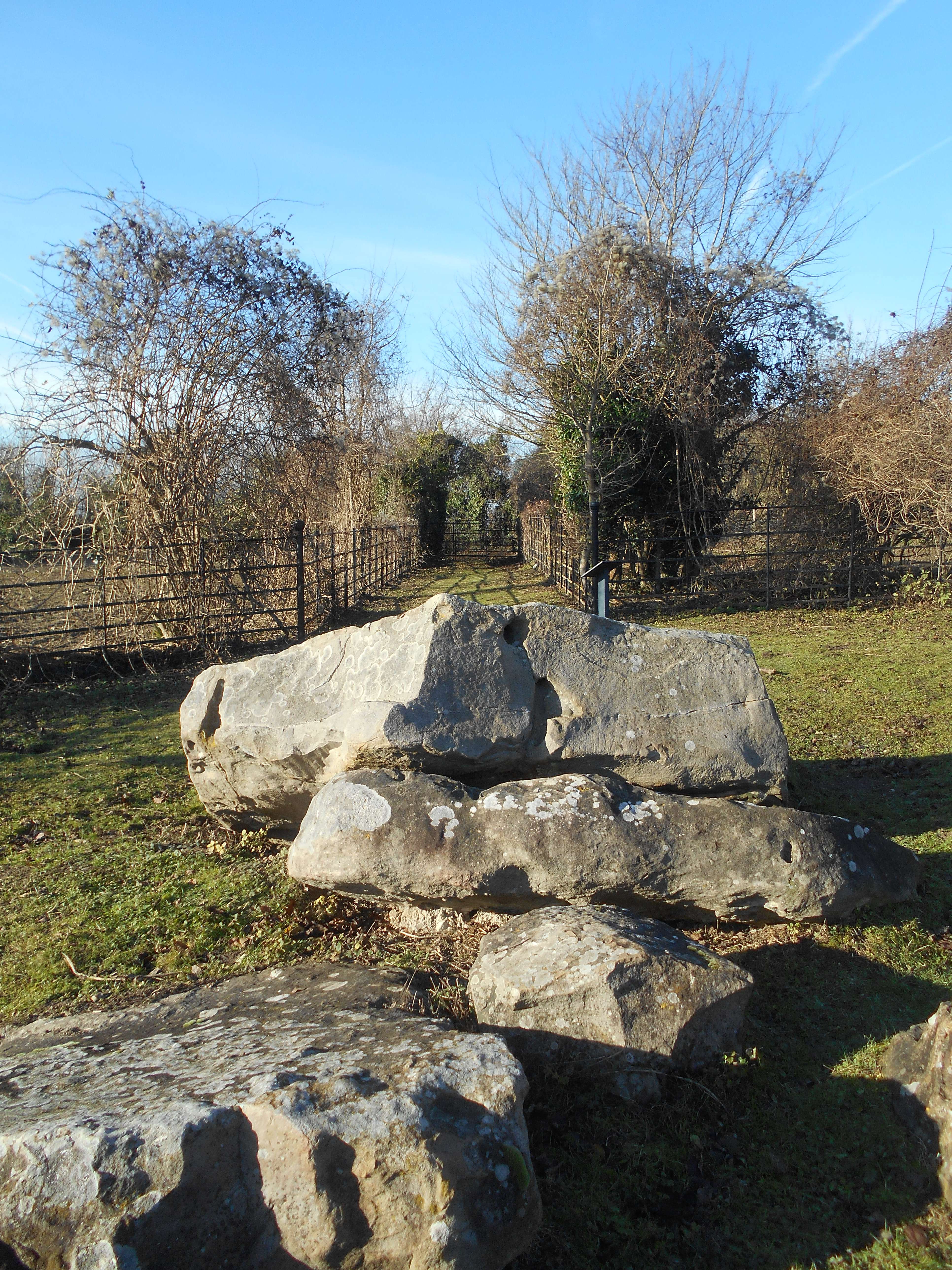 Little Kit's Coty House, near Blue Bell Hill, Kent, England. Remains of a neolithic chambered long barrow.